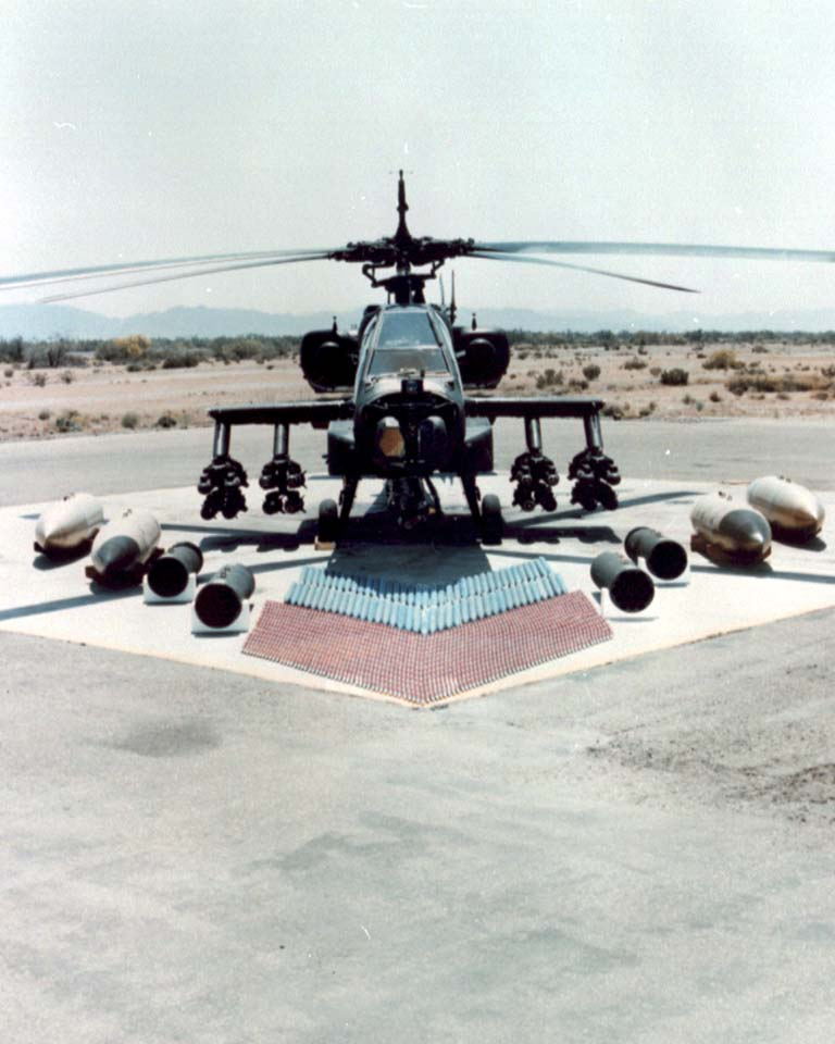 AH-64 with full ammo cargo